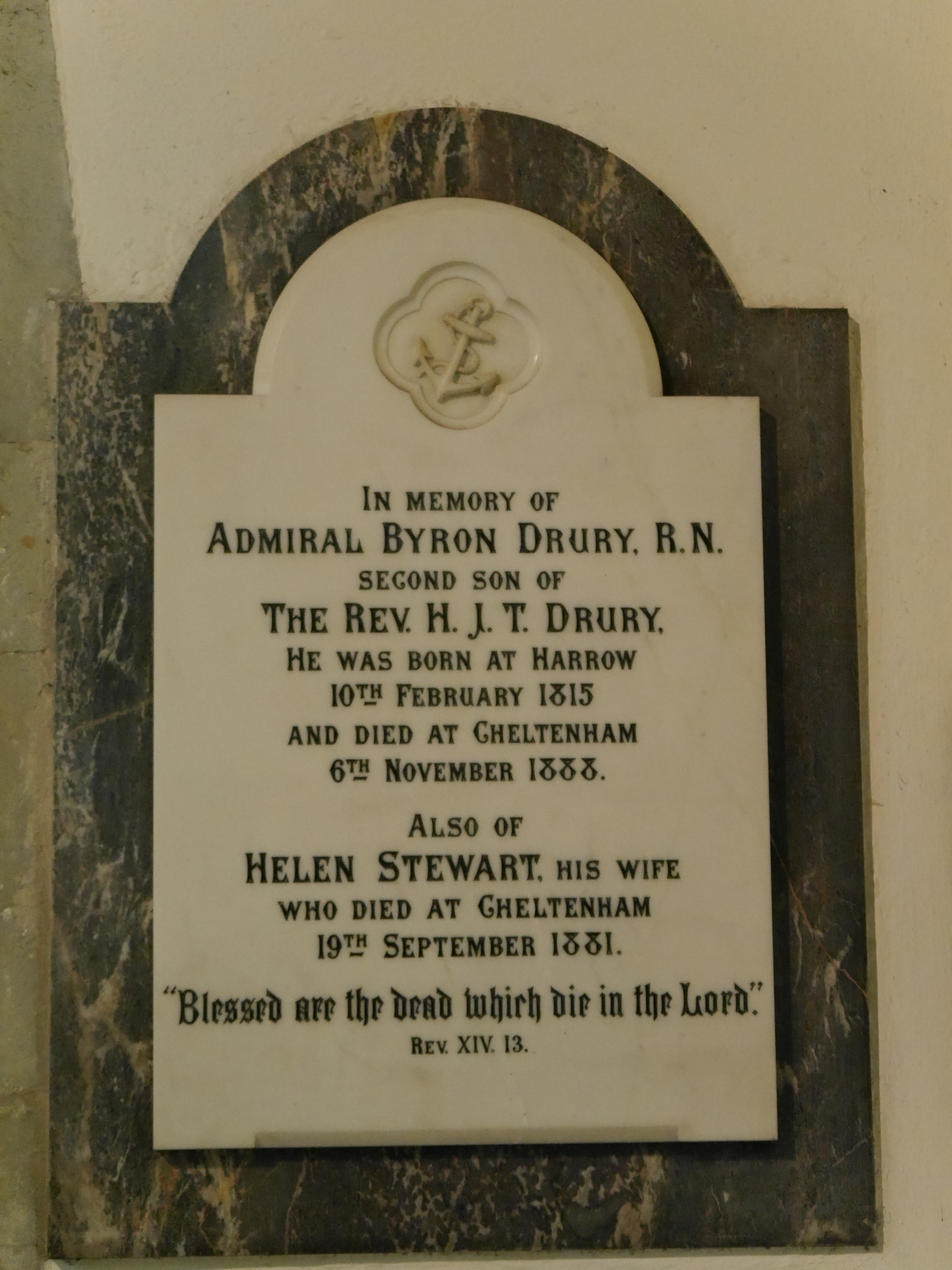 St Mary's, Harrow on the Hill, 2015